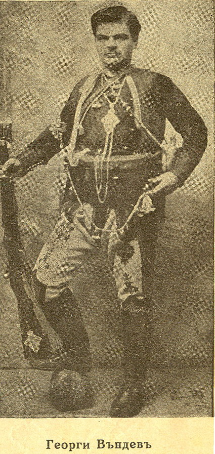 Portrait of Georgi Vandev